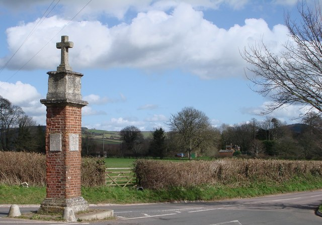 Brick pillar with rectangular stone cap bearing religious inscriptions and a cross, according to Pevsner (2004) erected in 1580 by the Sheriff of Devon who had ordered the burning of a witch at the crossroads. In 1743 Lady Rolle (sic) of Bicton House added 4 tablets naming the places to which each road leads. (Pevsner, Nikolaus & Cherry, Bridget, The Buildings of England: Devon, London, 2004, p.347) However, according to Rev. John Swete (d.1821) of Oxton House, it was built in 1743 by Henry Rolle, 1st Baron Rolle,[1] of Bicton House and Stevenstone, Devon. As well as serving as a signpost for the various places to which the four roads lead, it incorporates biblical inscriptions, such as "Her ways are ways of pleasantness", etc.[2] It stands between the parishes of Bicton and Otterton, Devon, both owned by the Rolle family. Please see other submitted image for a close up of the upper part of this memorial.